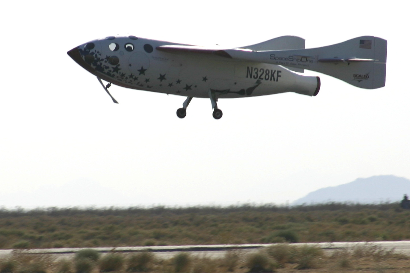 SpaceShipOne landing at the Mojave Spaceport on June 21, 2004; Mike Melvill's helmet can be seen through one of the windows